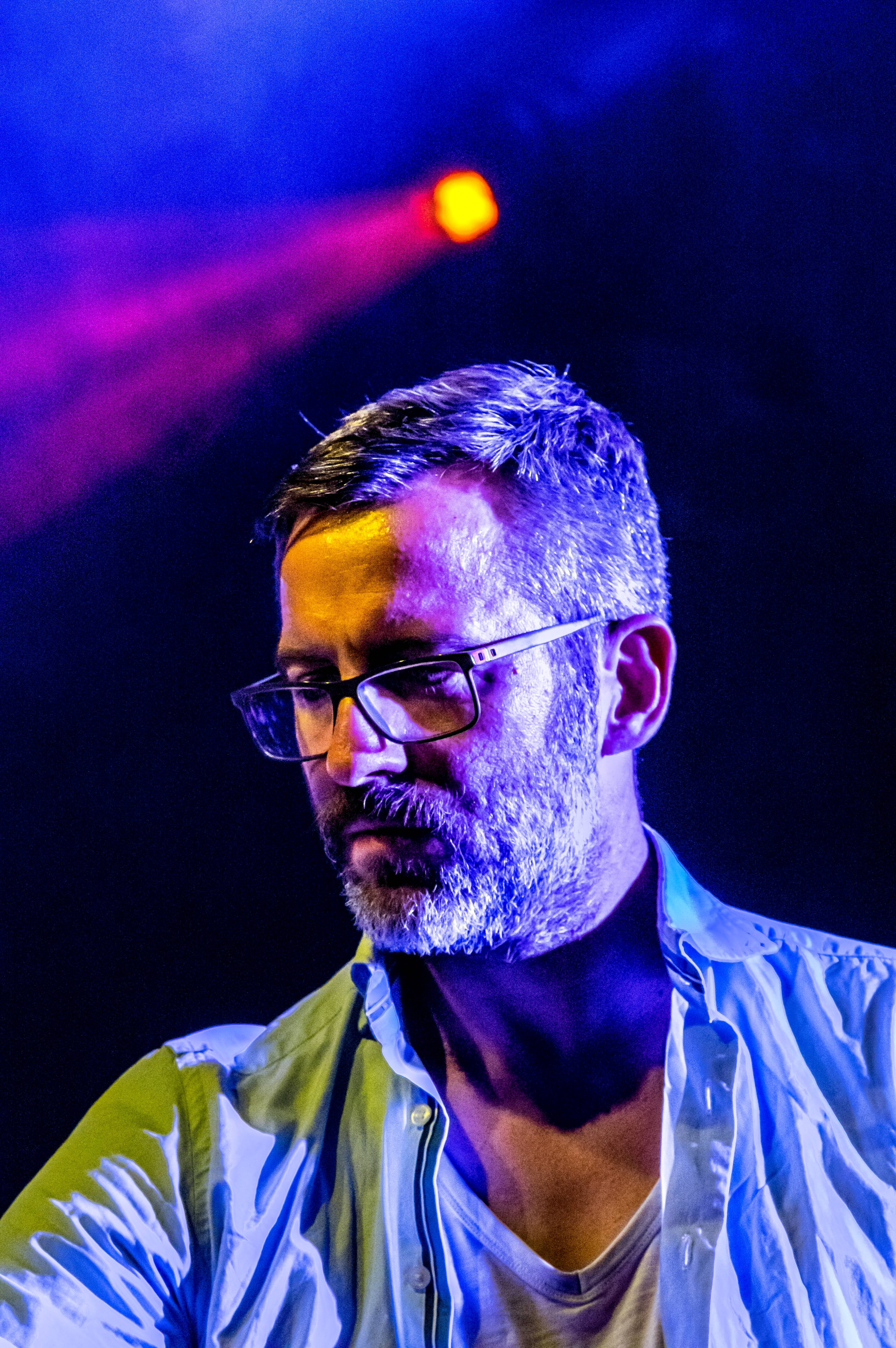 Bilder vom ZMF 2015 Root Down Special, Alexander Barck 10. Juli 2015